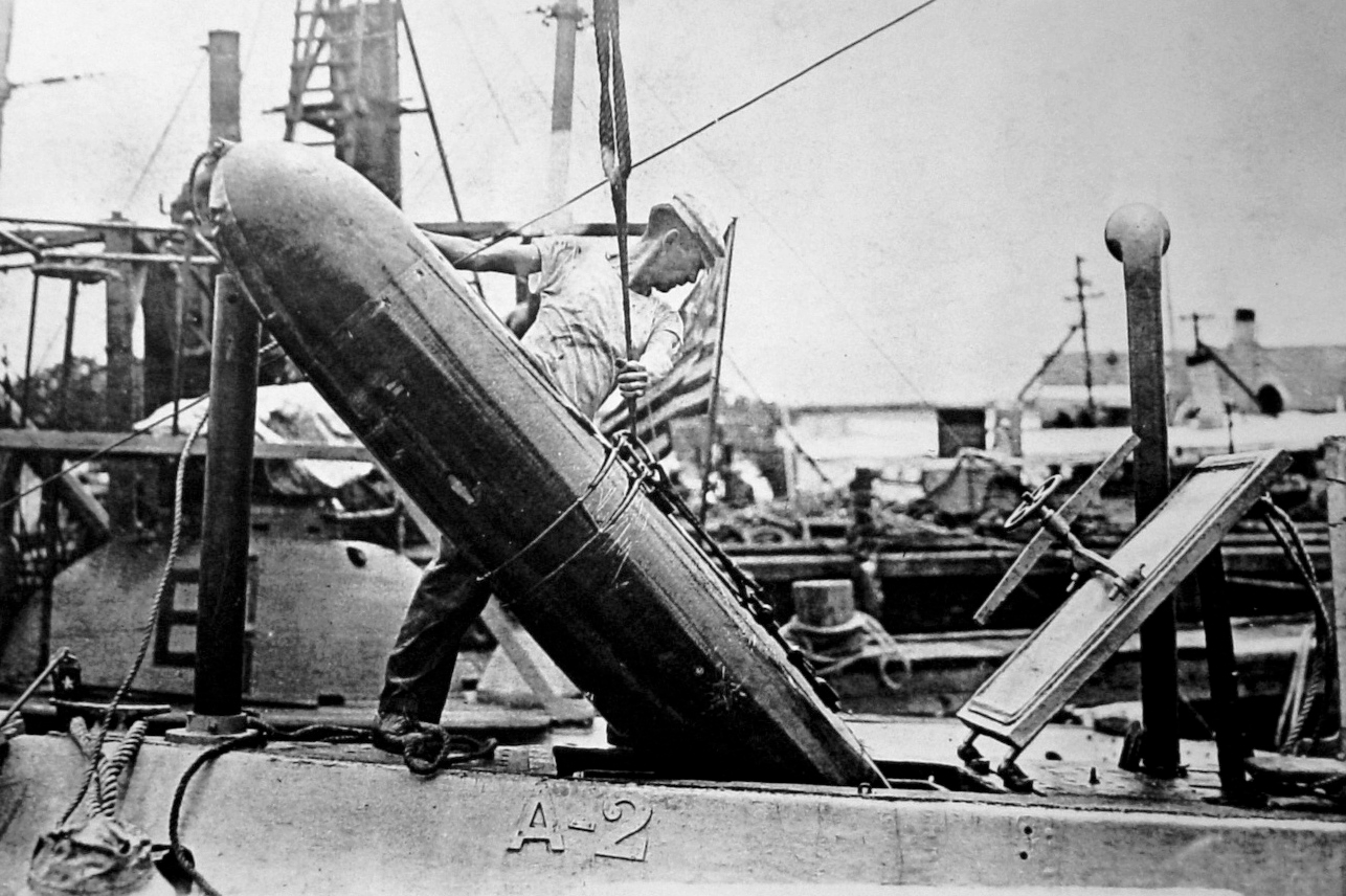 Loading an 18" torpedo, while at the Cavite Navy Yard, Philippines, circa 1912. Note this early submarine's rectangular hatch.